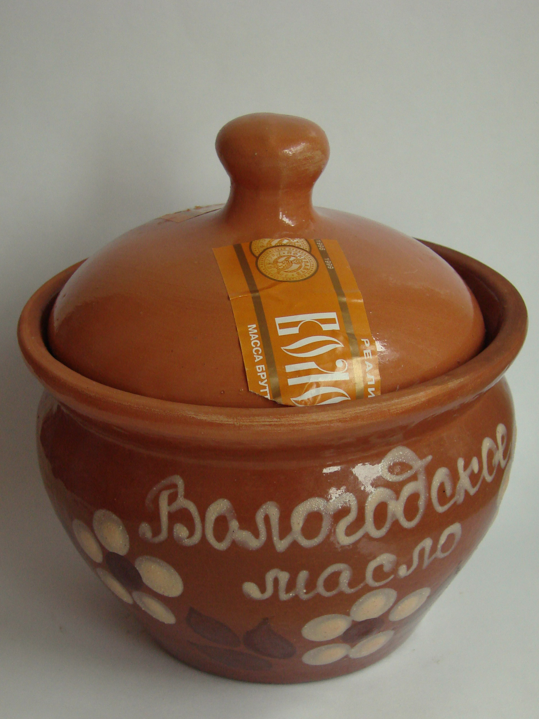 Vologda butter in the pot